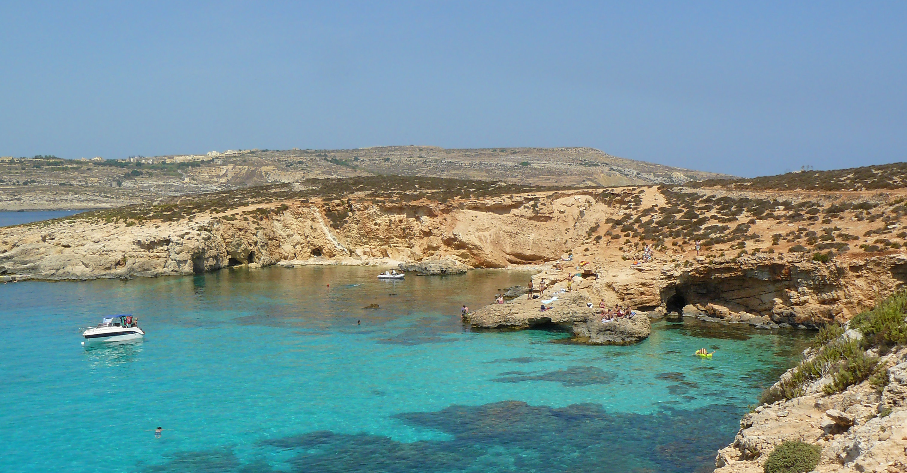 The Blue Lagoon - a small lagoon with pure, transparent water of a bright blue colour with a little beach which is situated between island of Comino and islet of Cominotto in the state of Malta.